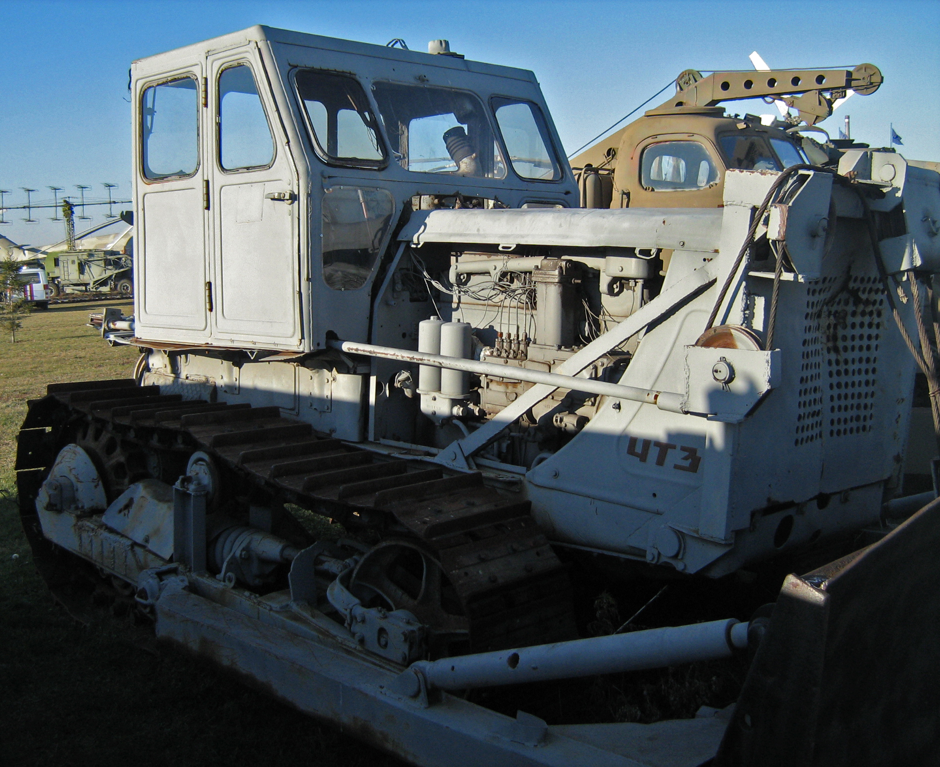 Bulldozer DZ-53 based on T-100 tractor in the museum of techniques in Vase (Togliatti)